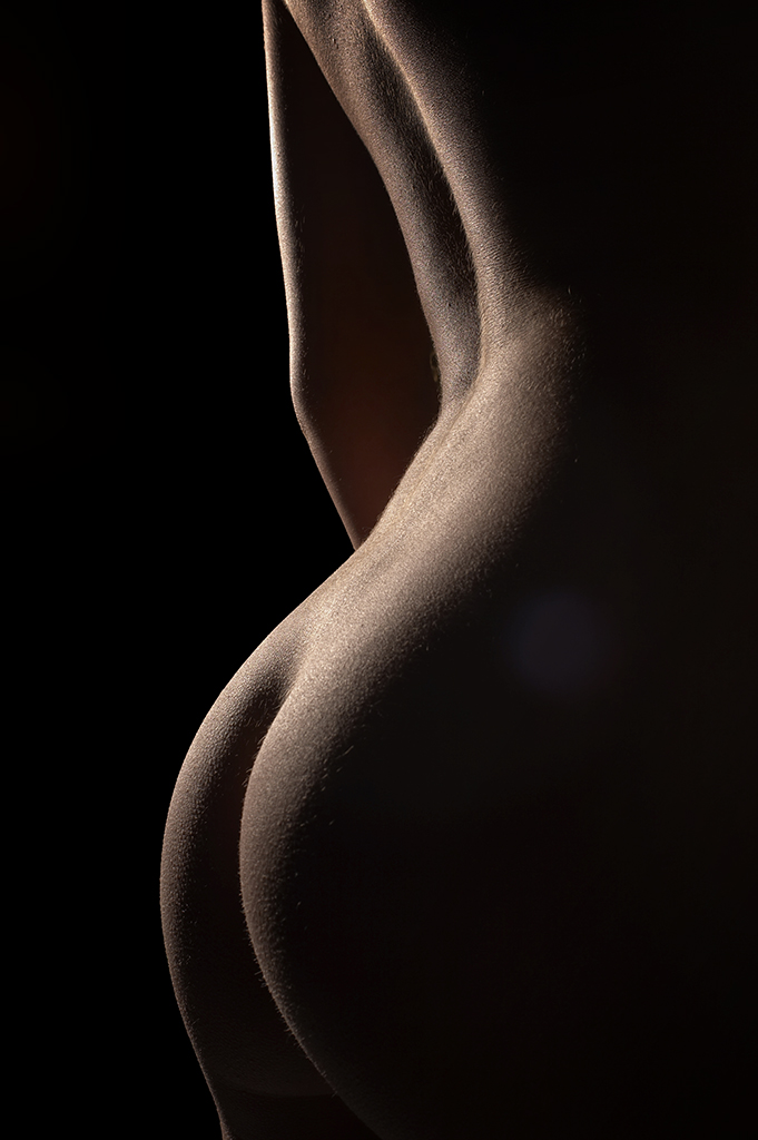 Buttocks taken in a studio session with a model @ lxstudio ... view FULLSCREEN - brand%c3%a3o my photos on DARCKR - my BLOG - my WEBSITE ...